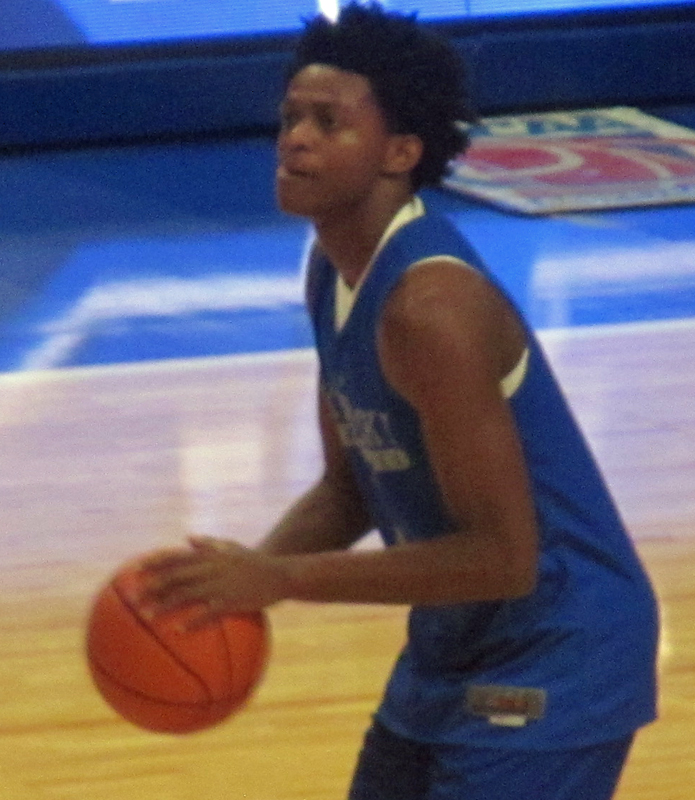 De'Aaron Fox at Kentucky's 2016 Blue-White scrimmage